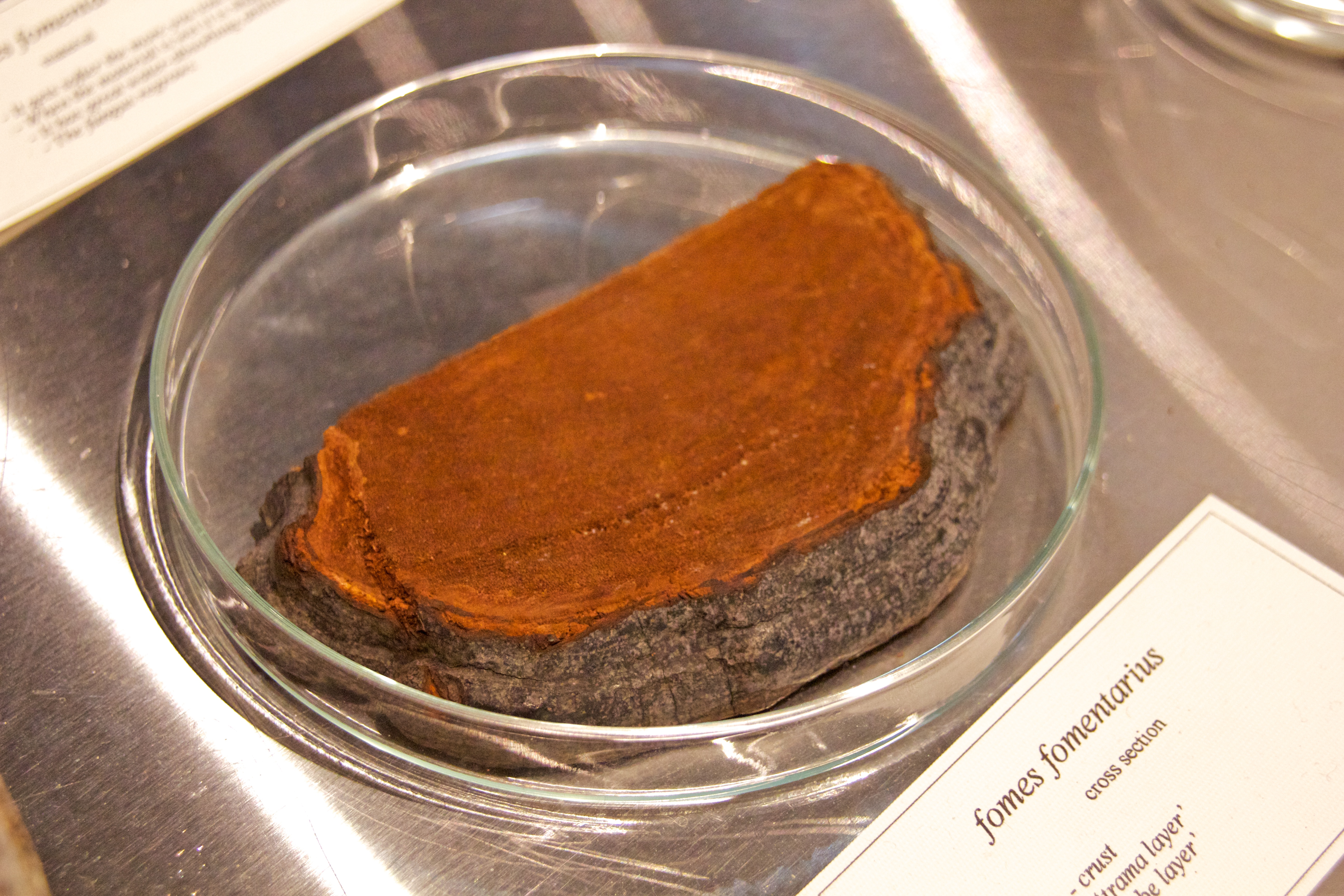 "fomes fomentarius cross section. Crust, trama layer, tube layer." At GLAMcamp Amsterdam.